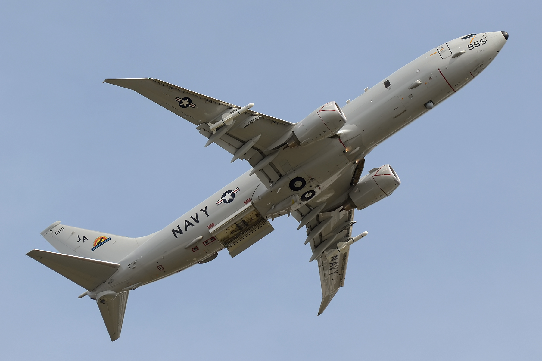 Farnborough International Airshow 2014 - Lots of extras with this B737-800.